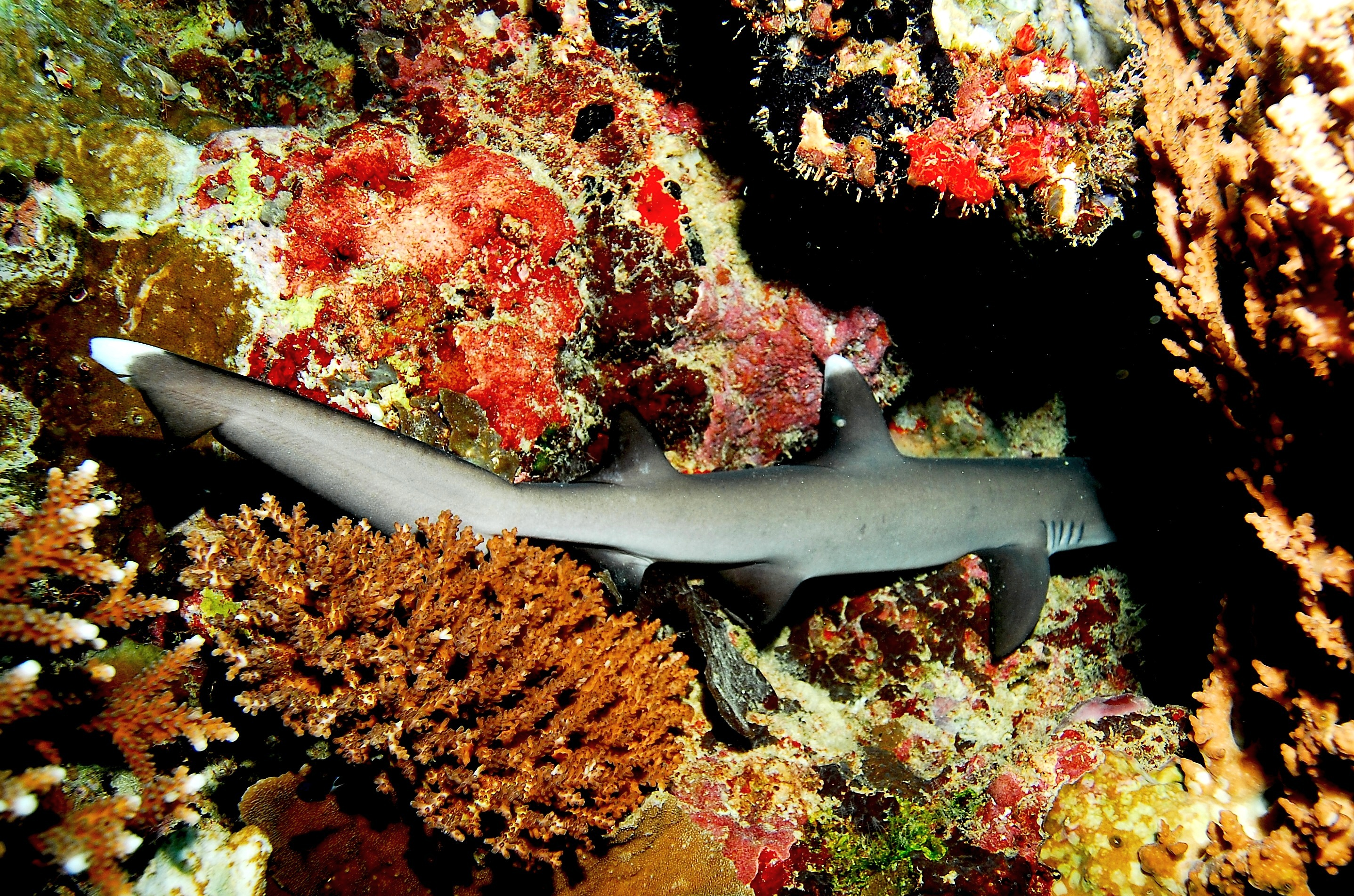 Whitetip reef shark (Triaenodon obesus) resting off Sipadan, Malaysia